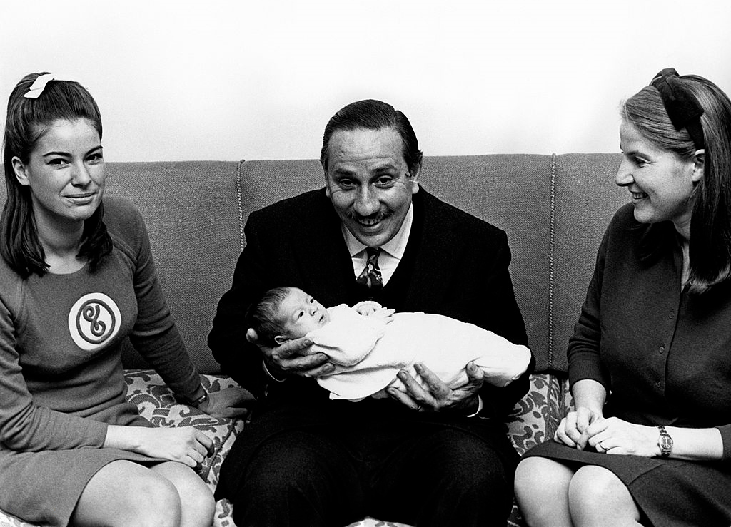 The Italian conductor and composer Gorni Kramer picking up his grandaughter Paola in his arms, under the eyes of his daughters Teresa and Laura. Milan, December 1967